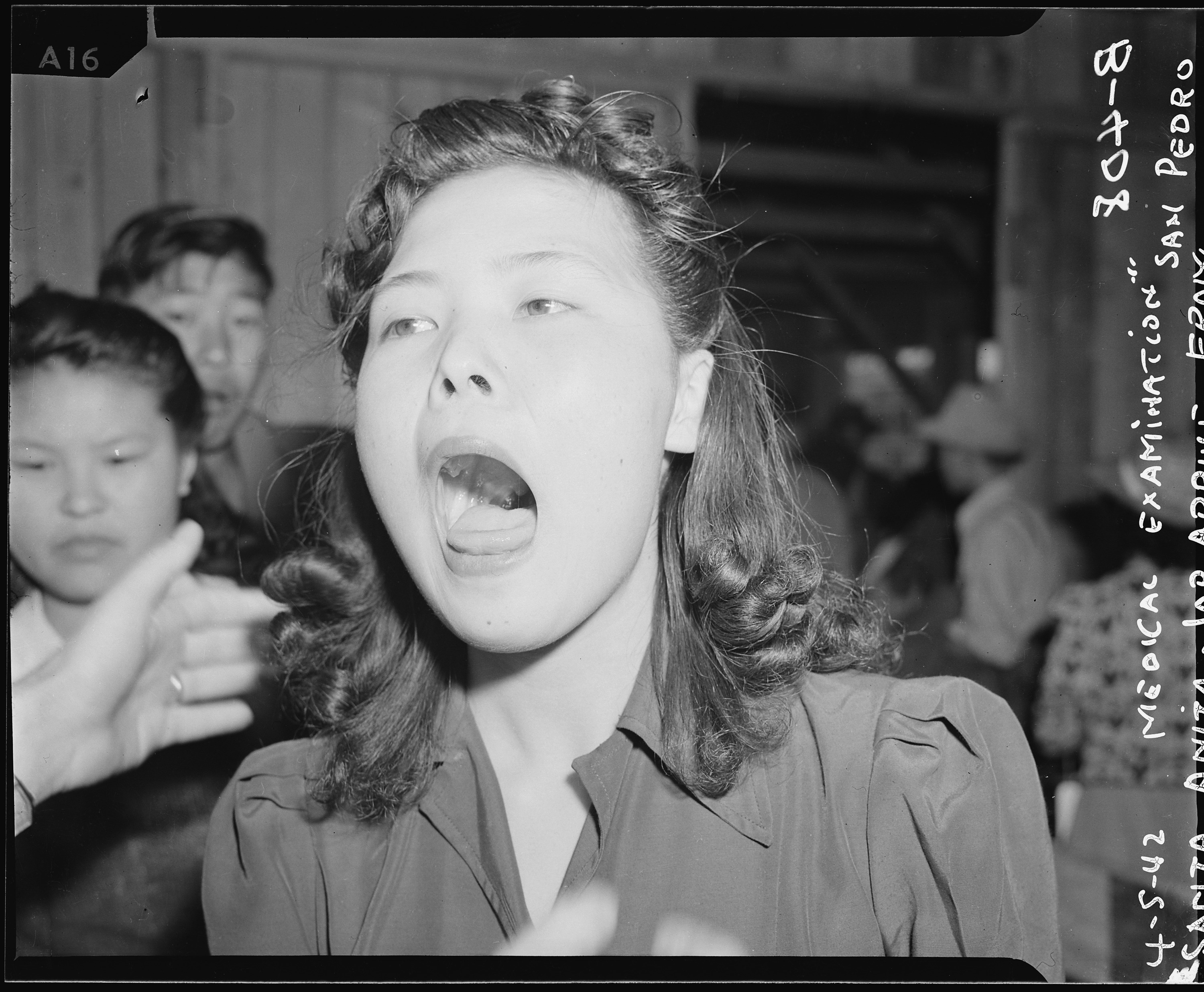 Scope and content: The full caption for this photograph reads: Arcadia, California. Throat examinations are given every new arrival at Santa Anita assembly center for evacuees of Japanese ancestry. Evacuees are transferred later to War Relocation Authority centers for the duration.